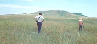 The Langdeau Site, a National Historic Landmark in Lyman County, South Dakota, United States.